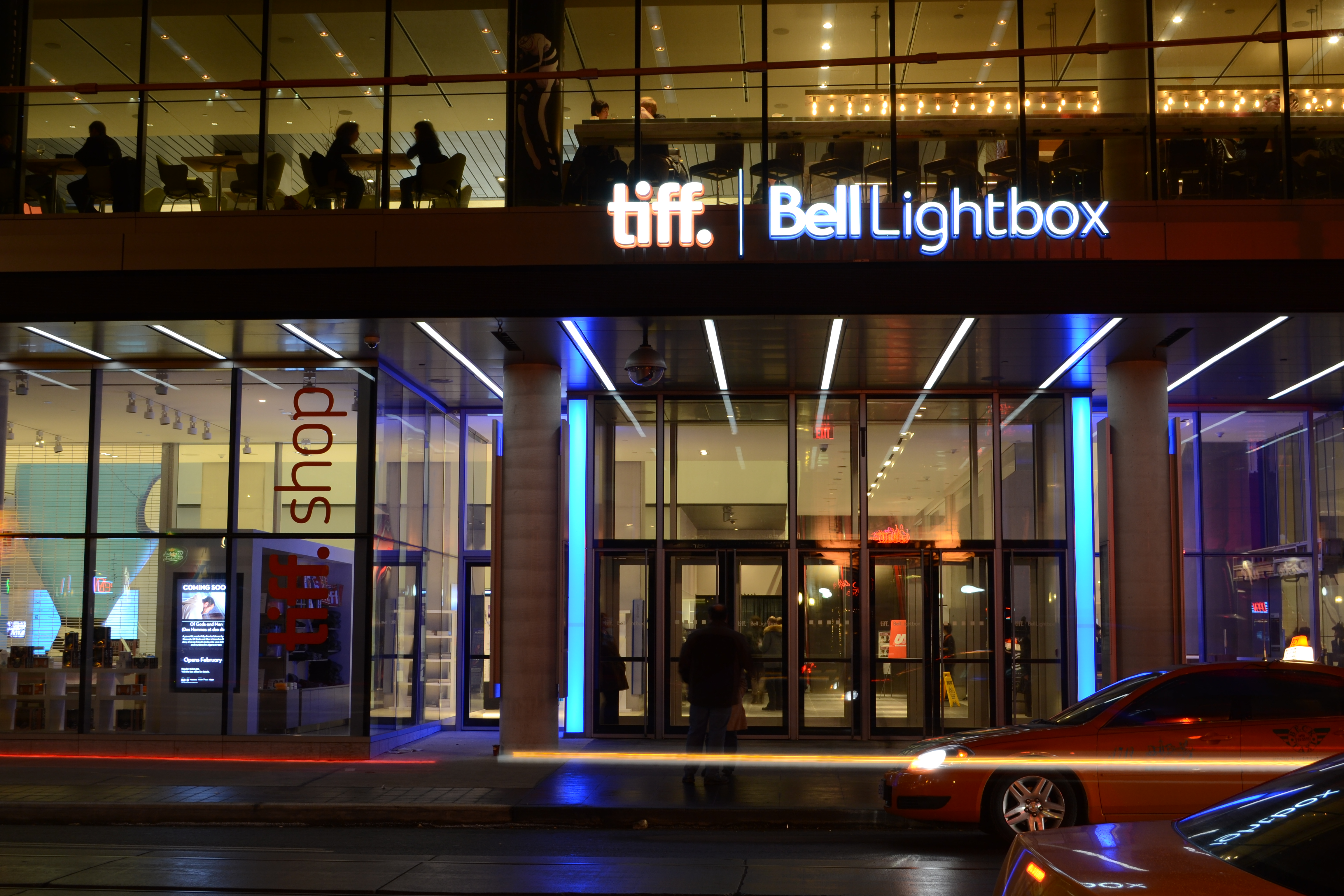 TIFF Bell Lightbox